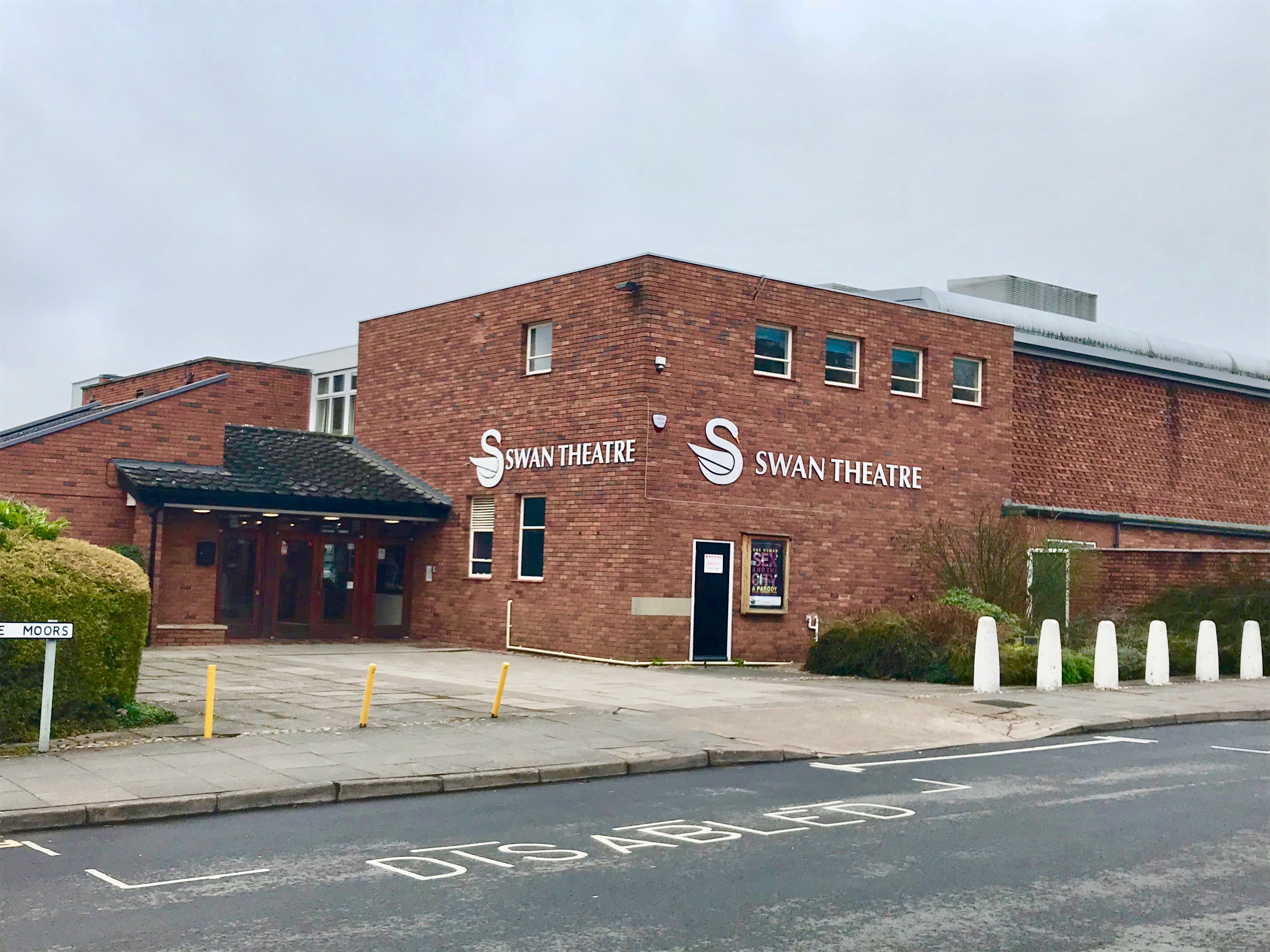 The front entrance to the Swan Theatre, Worcester